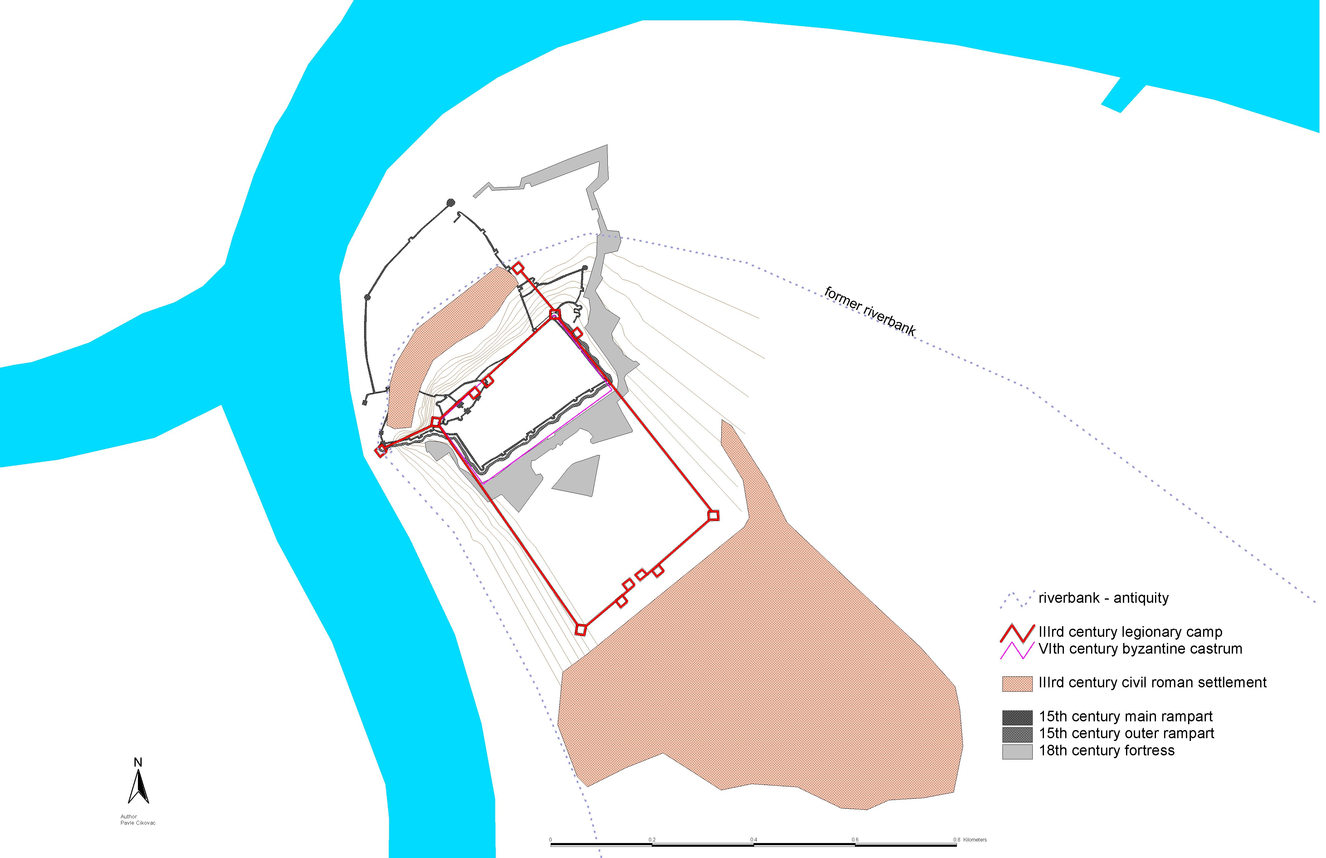 Urban developement of roman belgrade IIIrd and VIth century ac